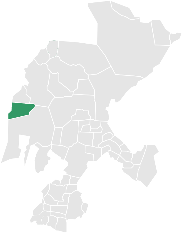 Map of the Municipality of Jiménez del Teul in Zacatecas, México.